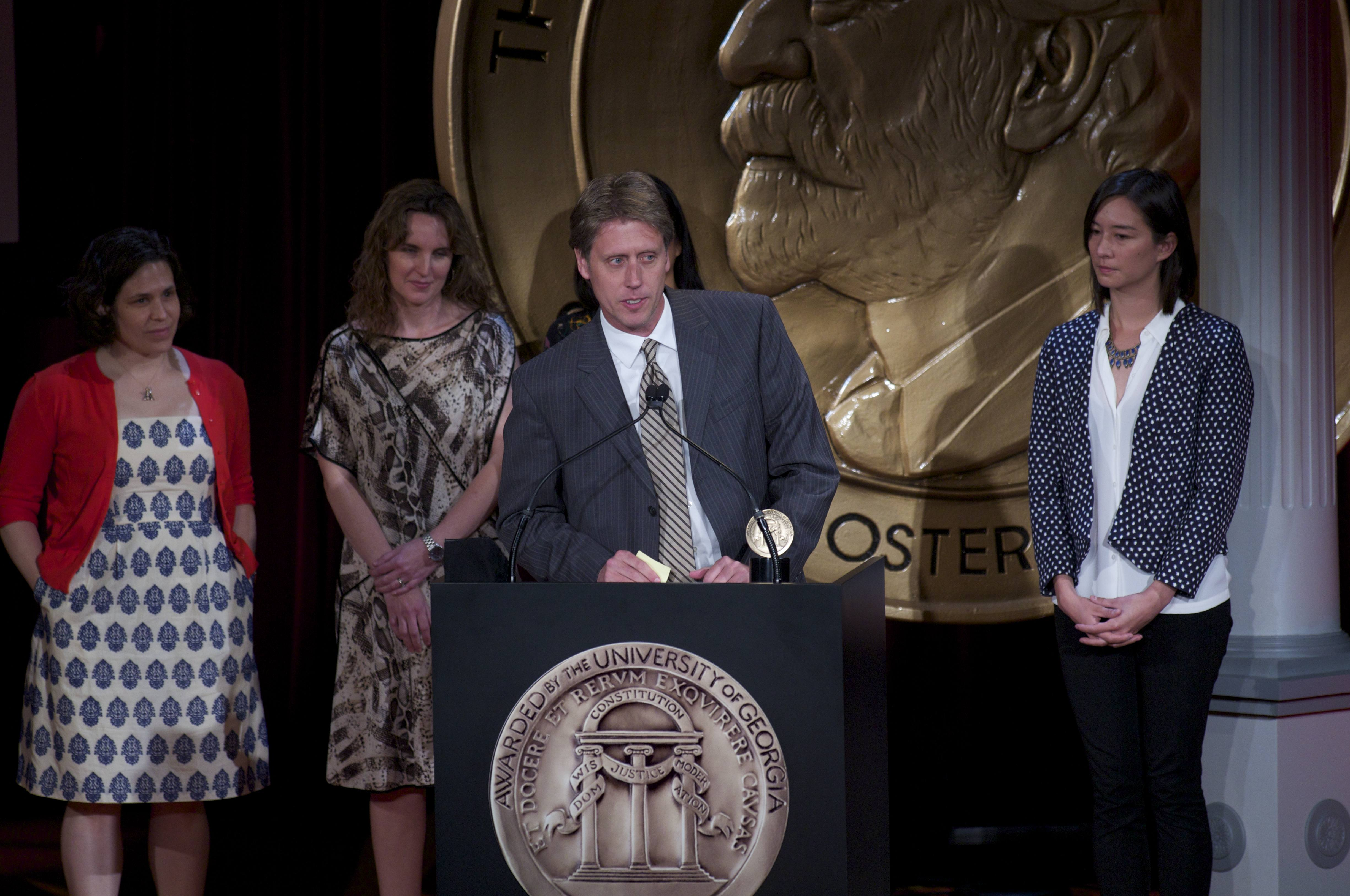 PHOTO CREDIT: ANDERS KRUSBERG / PEABODY AWARDS L to R: Becky Lebowitz, Hannah Fairfield, John Branch, and Cath Spangler, 72nd Annual Peabody Awards Luncheon Waldorf-Astoria Hotel May 20, 2013